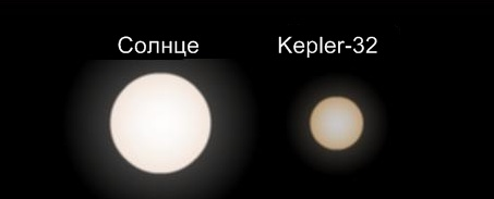 Comparative sizes of Sun and Kepler-32.